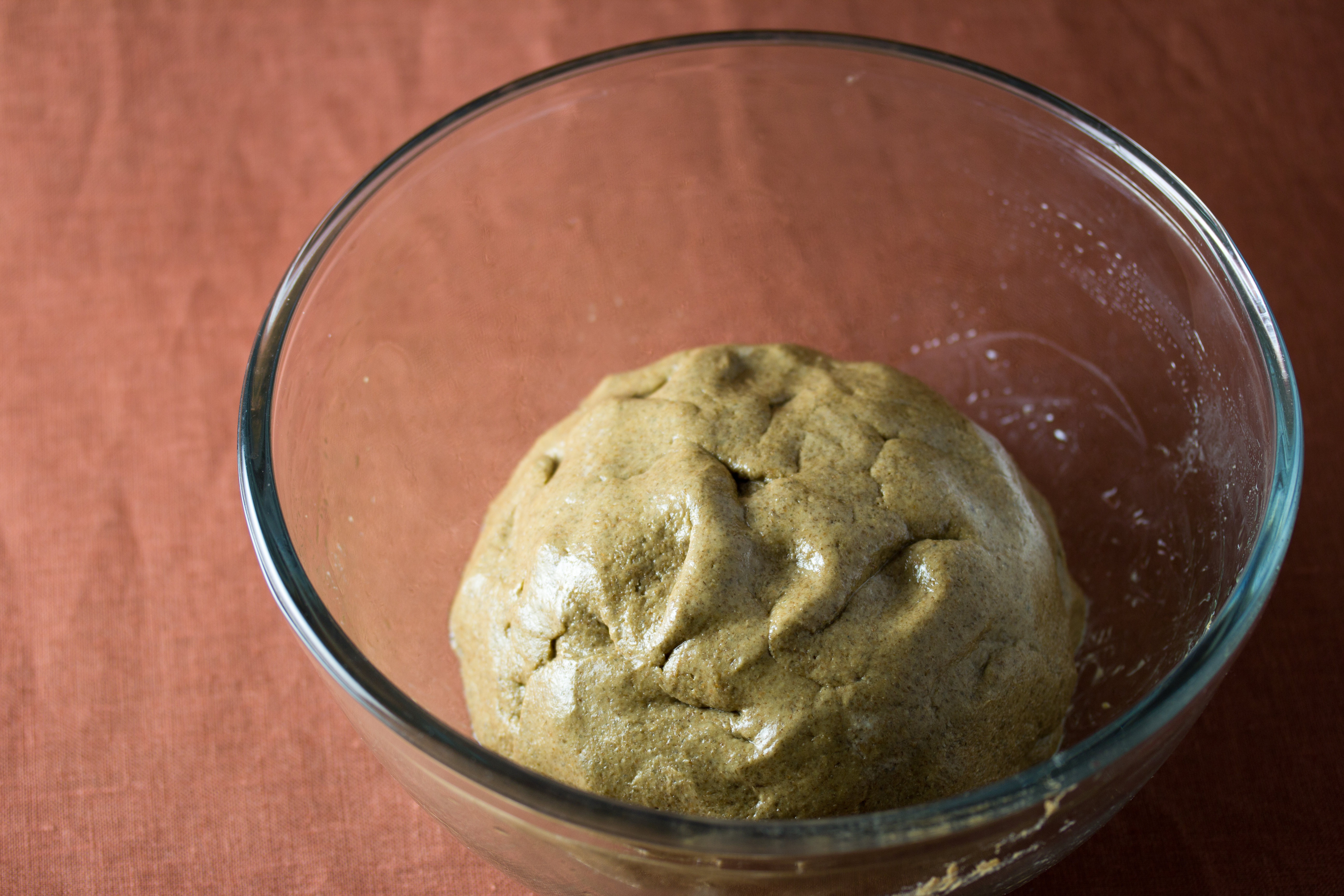 100% Rye Bread Dough